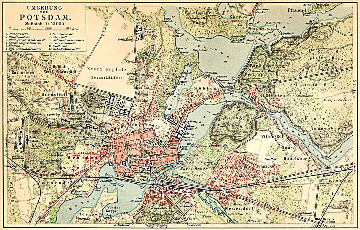 Historical map of Potsdam